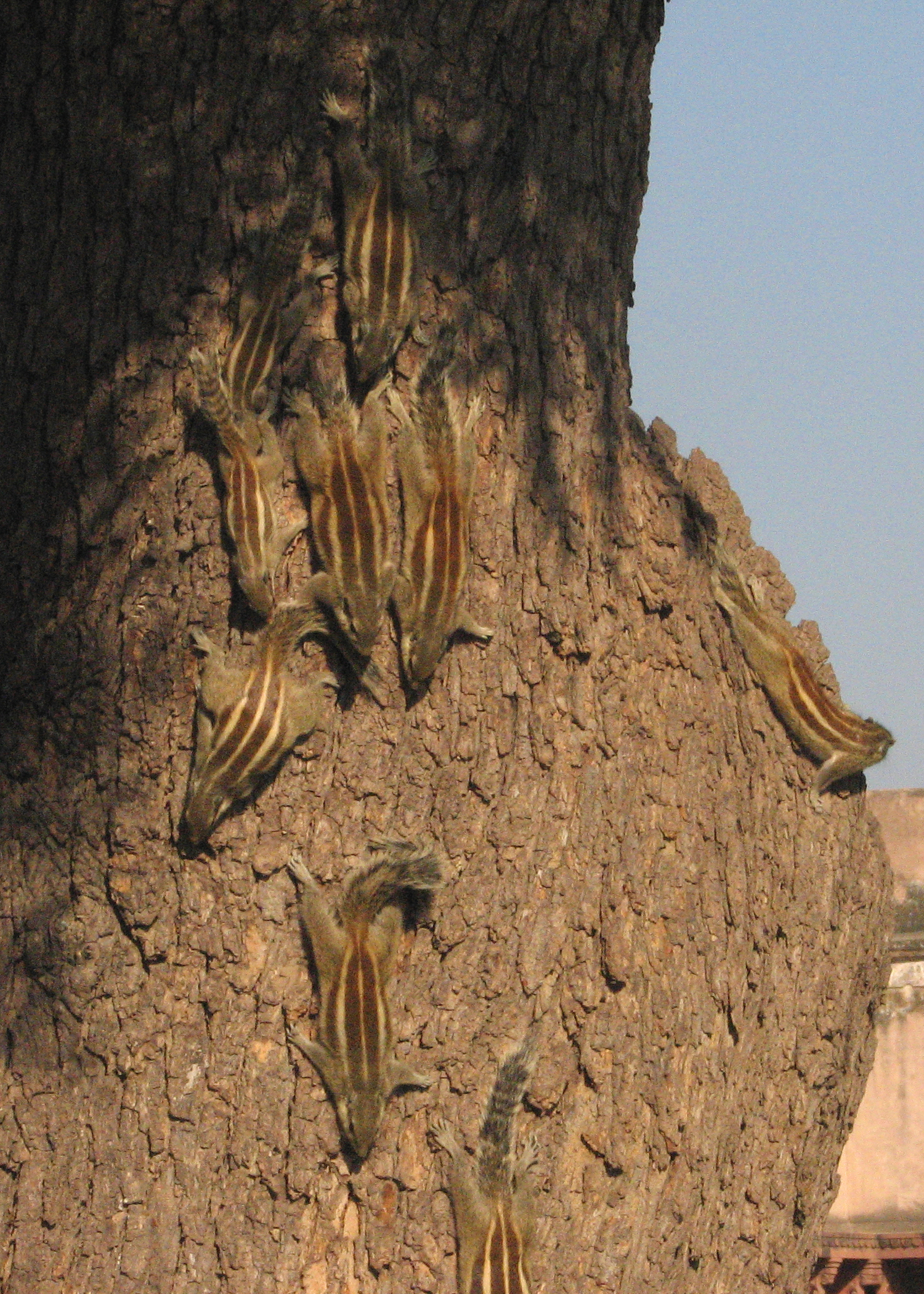 Scurry of Northern Palm Squirrels or Five-striped Palm Squirrels (Funambulus pennantii) taken on grounds of Agra Fort, Agra, India